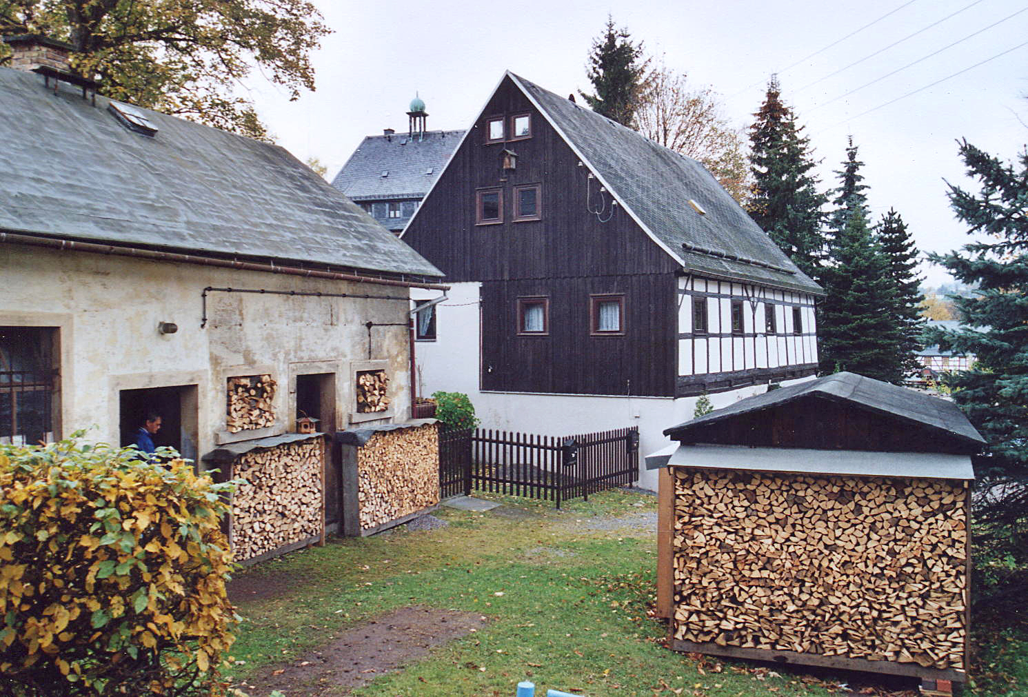 This image shows a typical house with it`s collection of firewood in Seiffen in the Ore Mountains, Saxony, Germany.